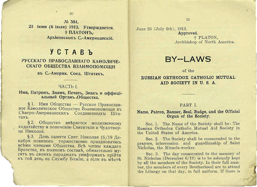 The first page of the Russian Orthodox Catholic Mutual Aid Society (ROCMAS) by-laws (1913) with the Rusyn version on the left and the English on the right.